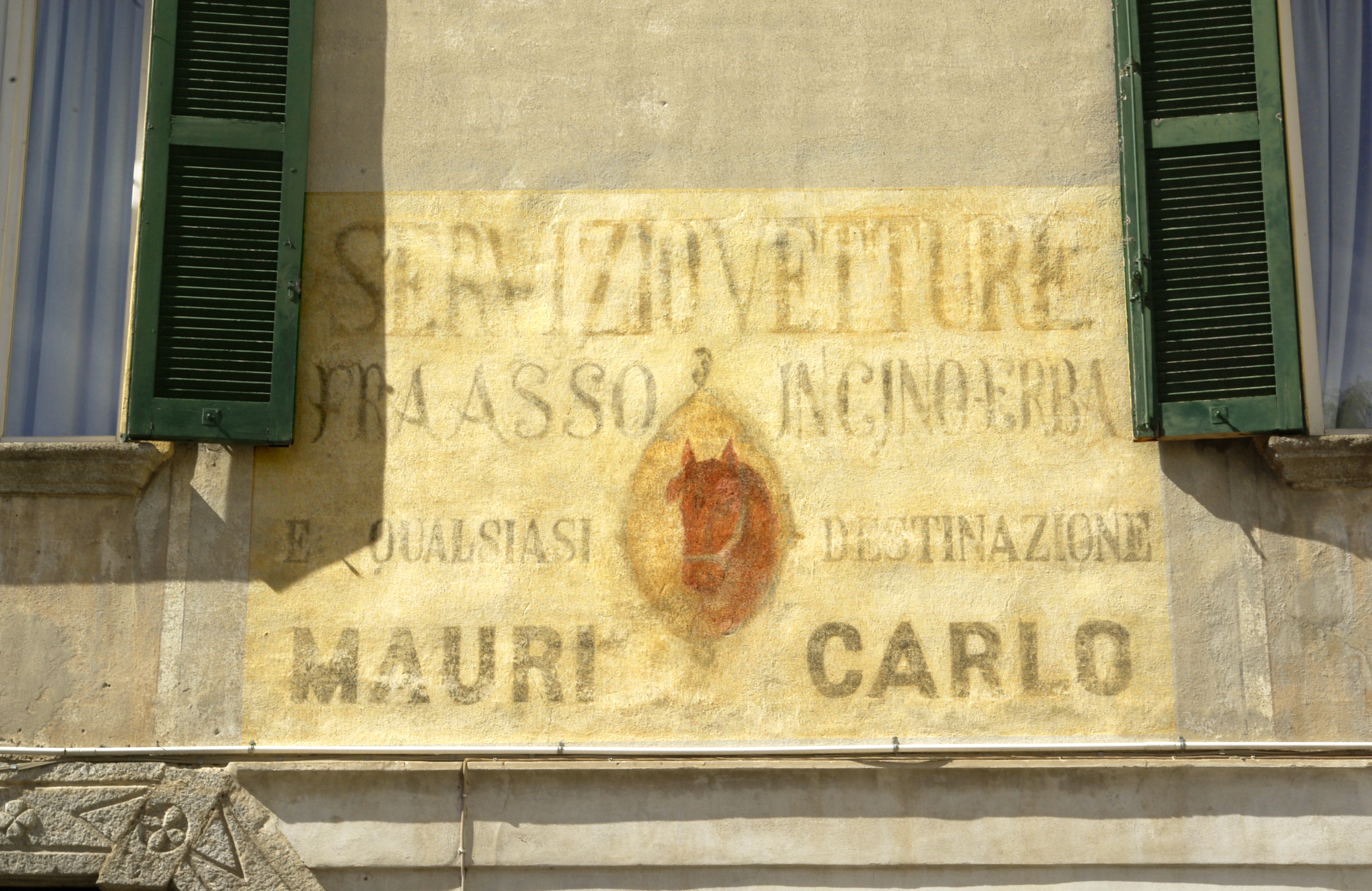 Old advise of a horse bus service from Asso to Erba Incino painted in external wall of an house in Asso